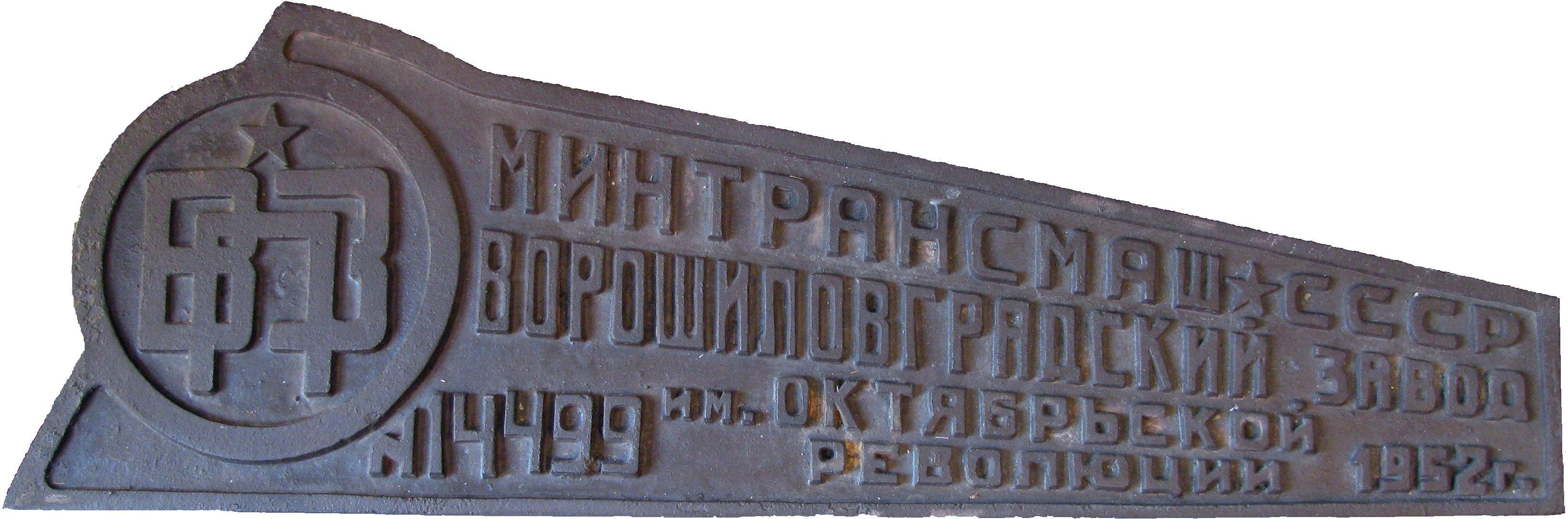 Builder's plate of a steam locomotive. "Voroshilovgradskiy zavod, 1952". Latvijas dzelzceļa vēstures muzejs, Jelgava, Latvia